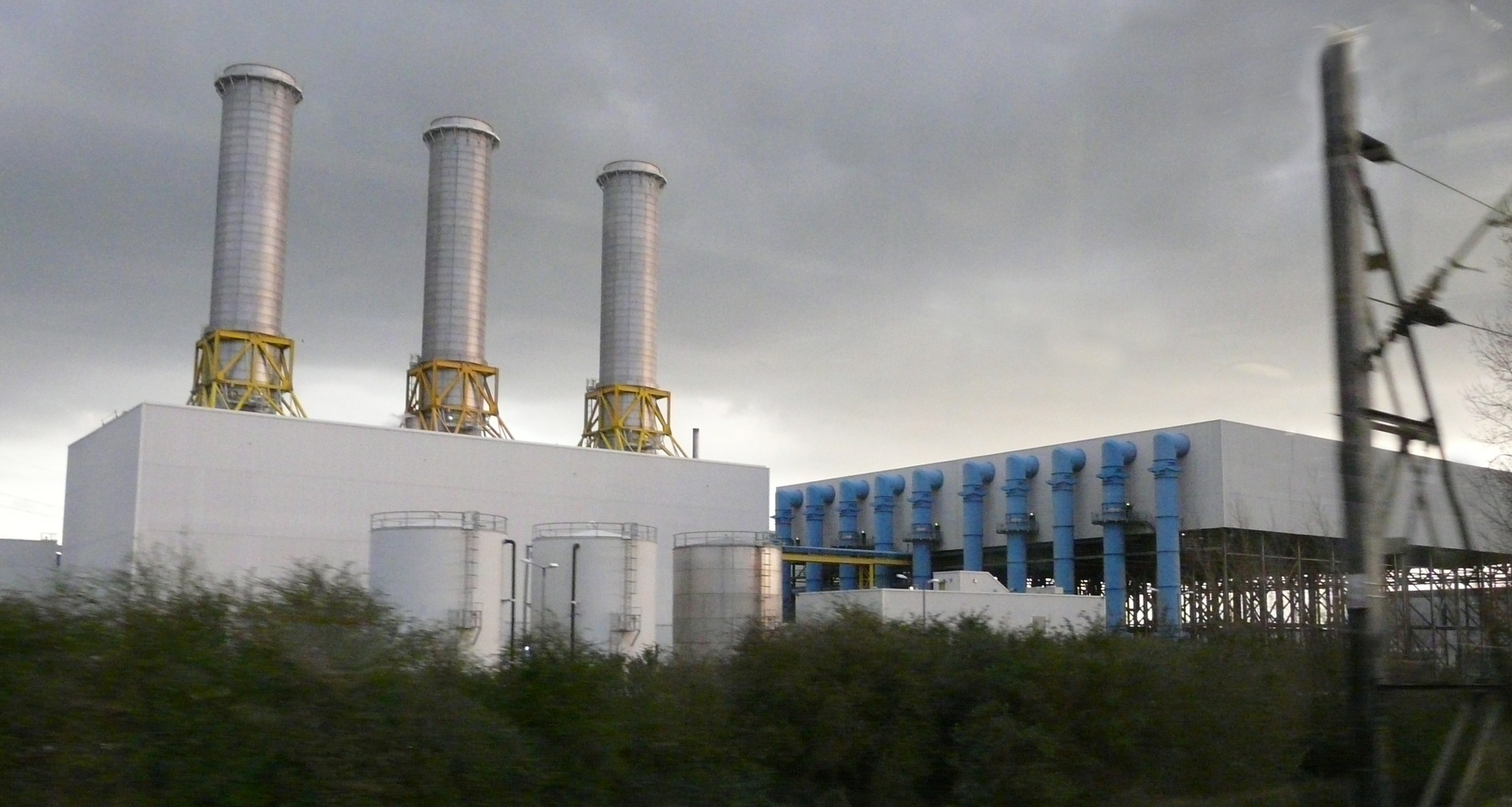 A photo of Rye House power station, taken from a moving train. Cropped, and window reflections removed with Photoshop.